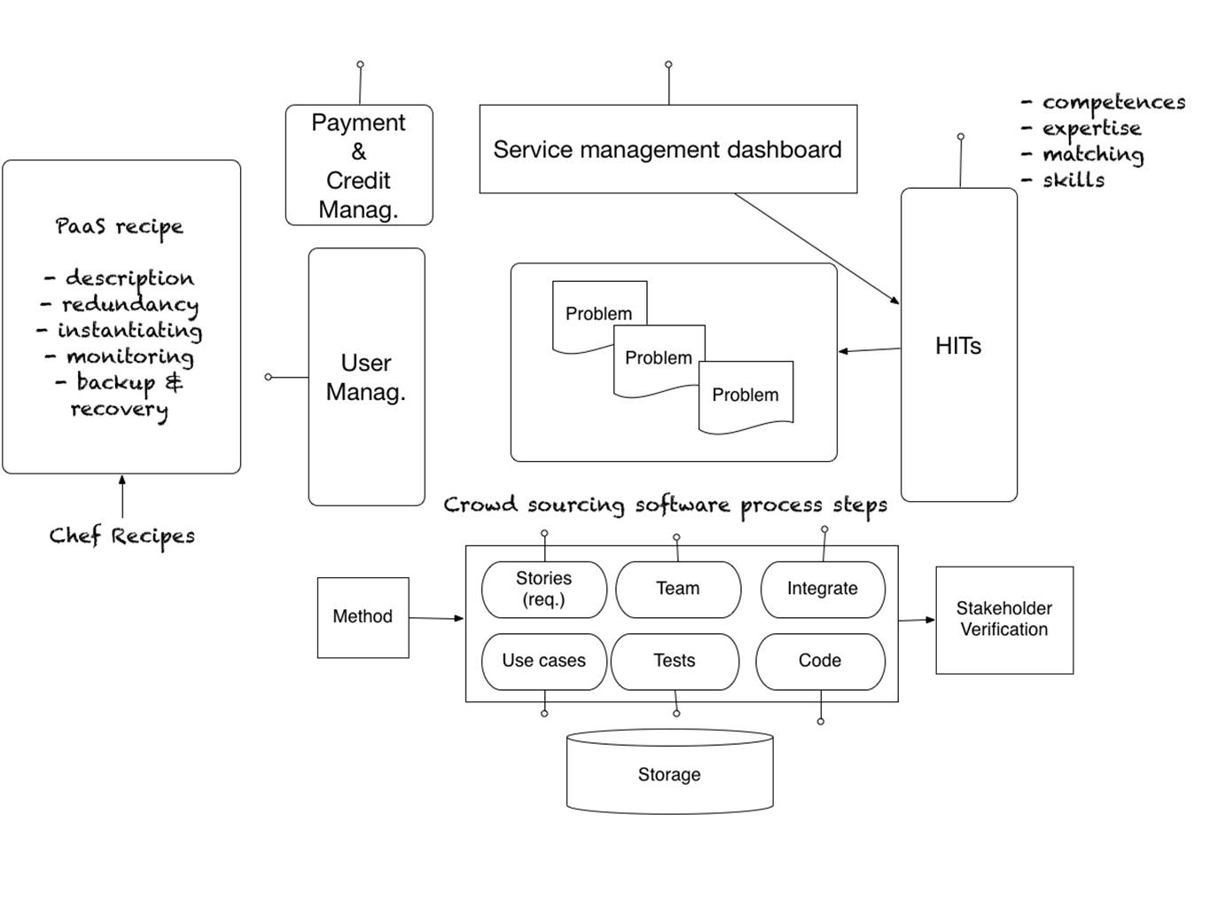 The reference architecture defines the umbrella activities and structure of crowdsourcing software development.